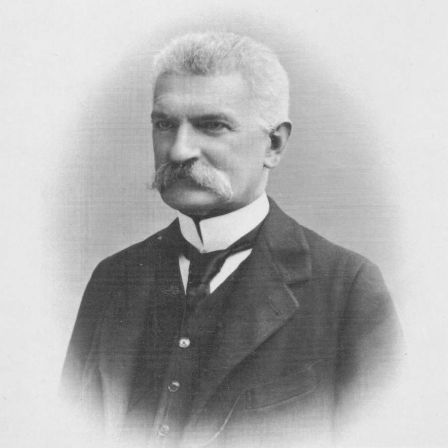 Sidney Sonnino (11 March 1847 – 24 November 1922). Italian politician.